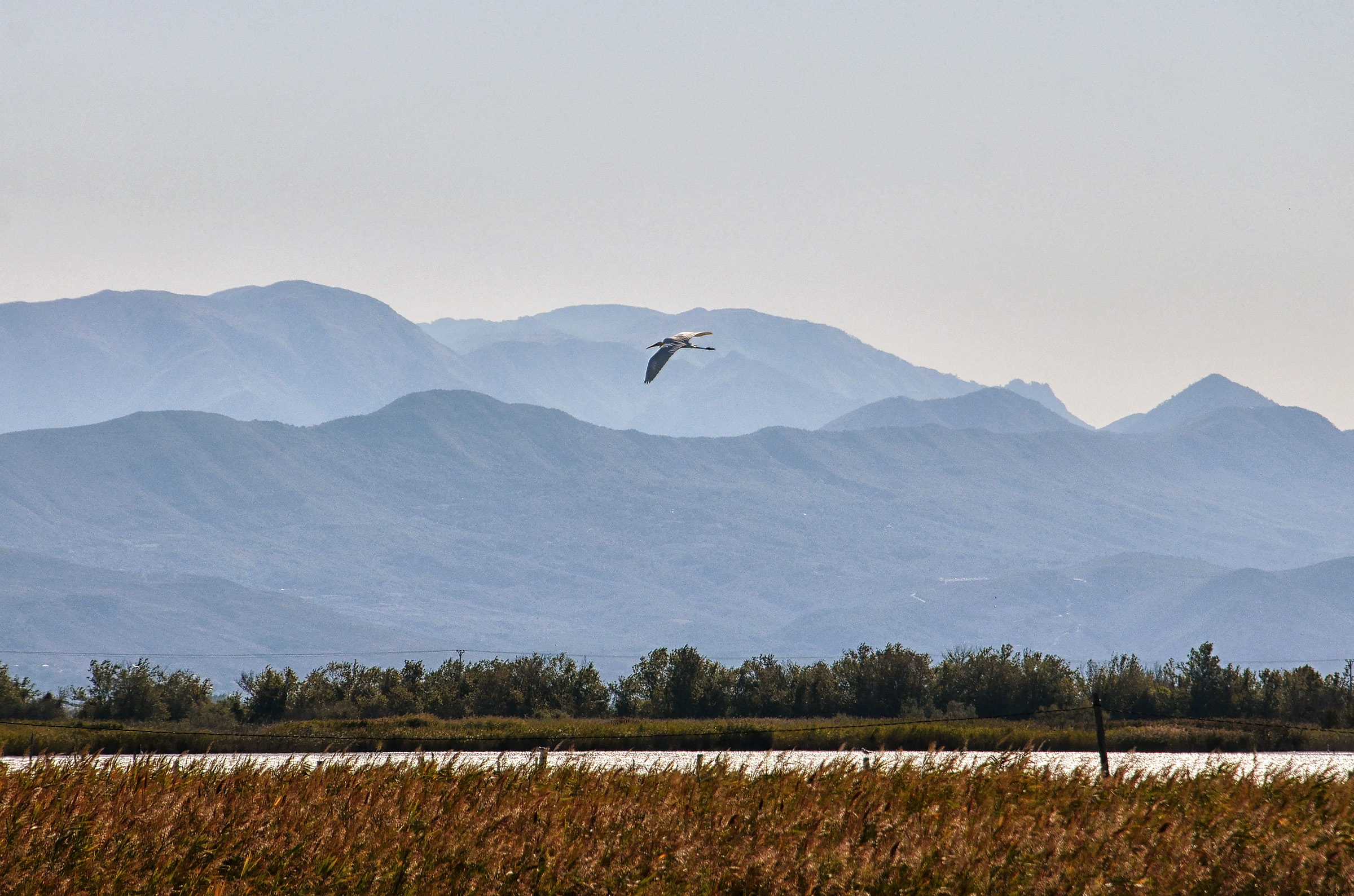 The Kunë-Vaine-Tale Nature Park in Albania